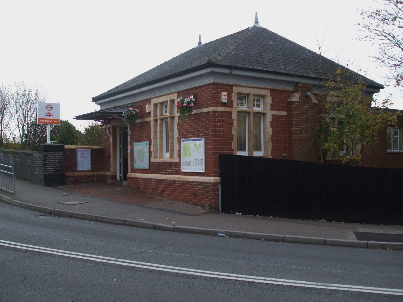 Headstone Lane station main building